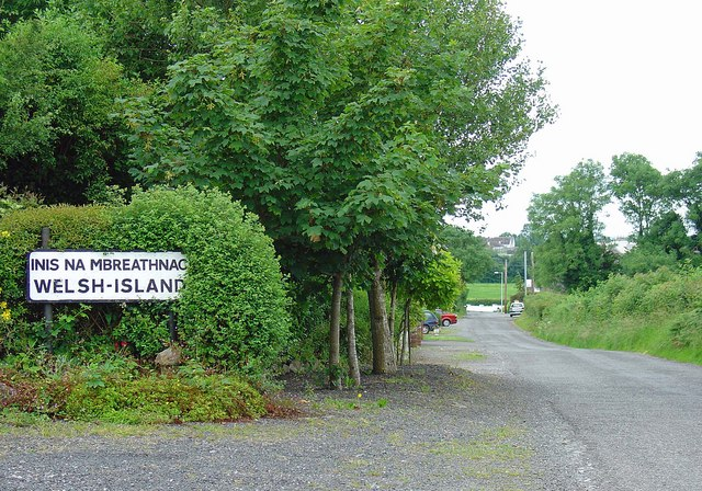 Entrance to Walsh Island, Co. Offaly "Island of the Briton". Makes one feel quite at home. The map and other signs in the village say Walsh, but the meaning is the same.